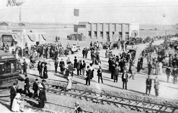 Van Nuys, Calif. after 1911 when the Pacific Electric Cars, seen to the left of the photograph, were brought to the San Fernando Valley. The Van Nuys Tract office is visible behind the train. The street is decorated with patriotic bunting and flags that may indicate photograph was made during a national holiday or the opening of the Pacific Electric in Van Nuys, December 16, 1911. Black and white photograph. 8.5 x 13.5 in.